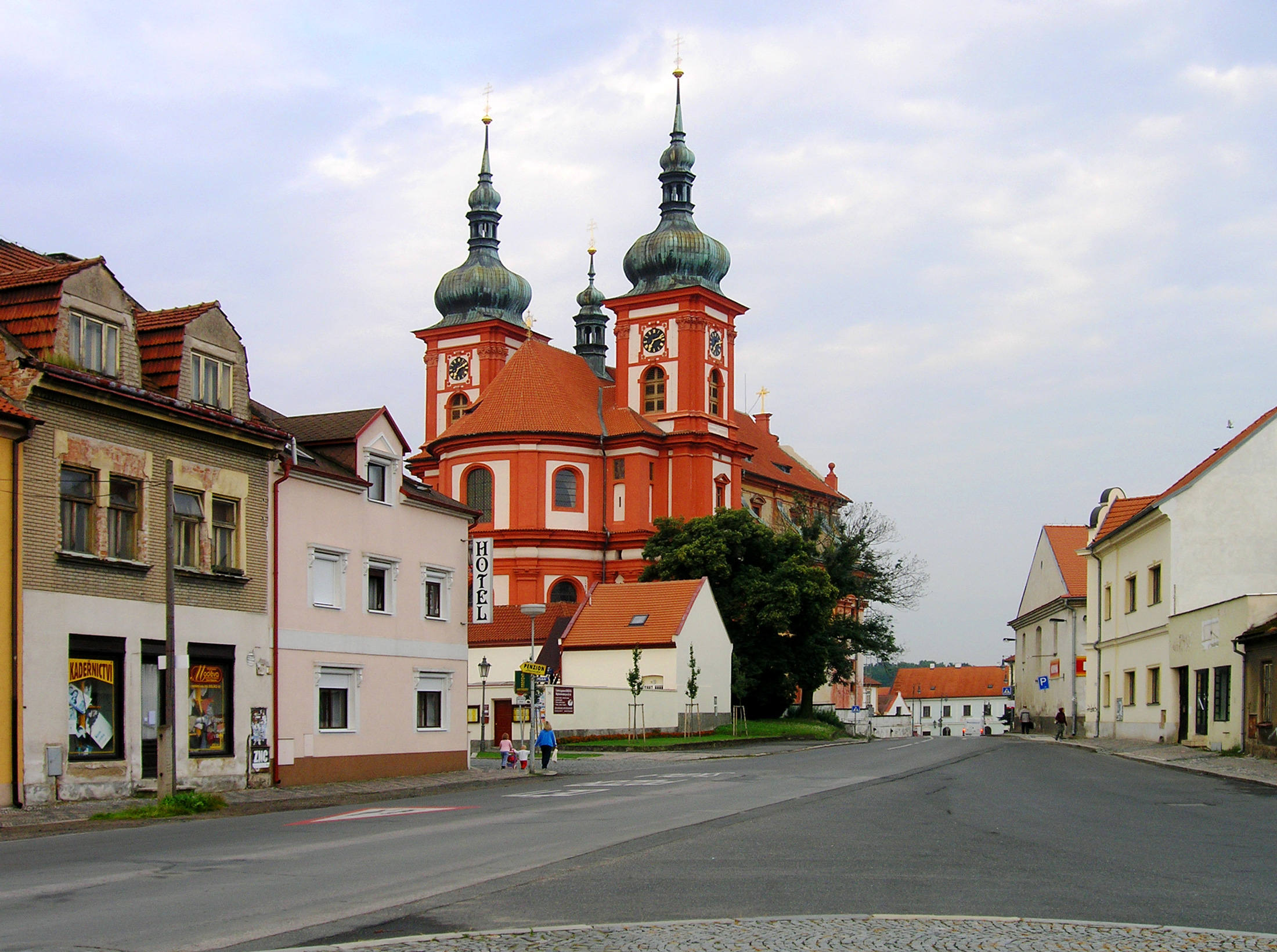 Nanebevzetí Panny Marie church in Stará Boleslav, Czech Republic